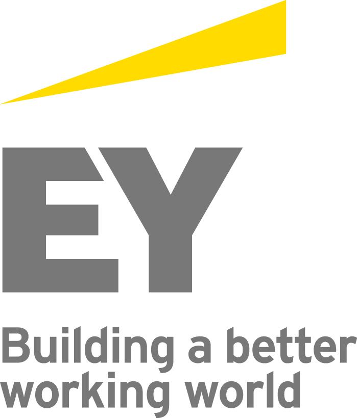 Logo of advertisement agency Ernst & Young, launched in July, 2015.